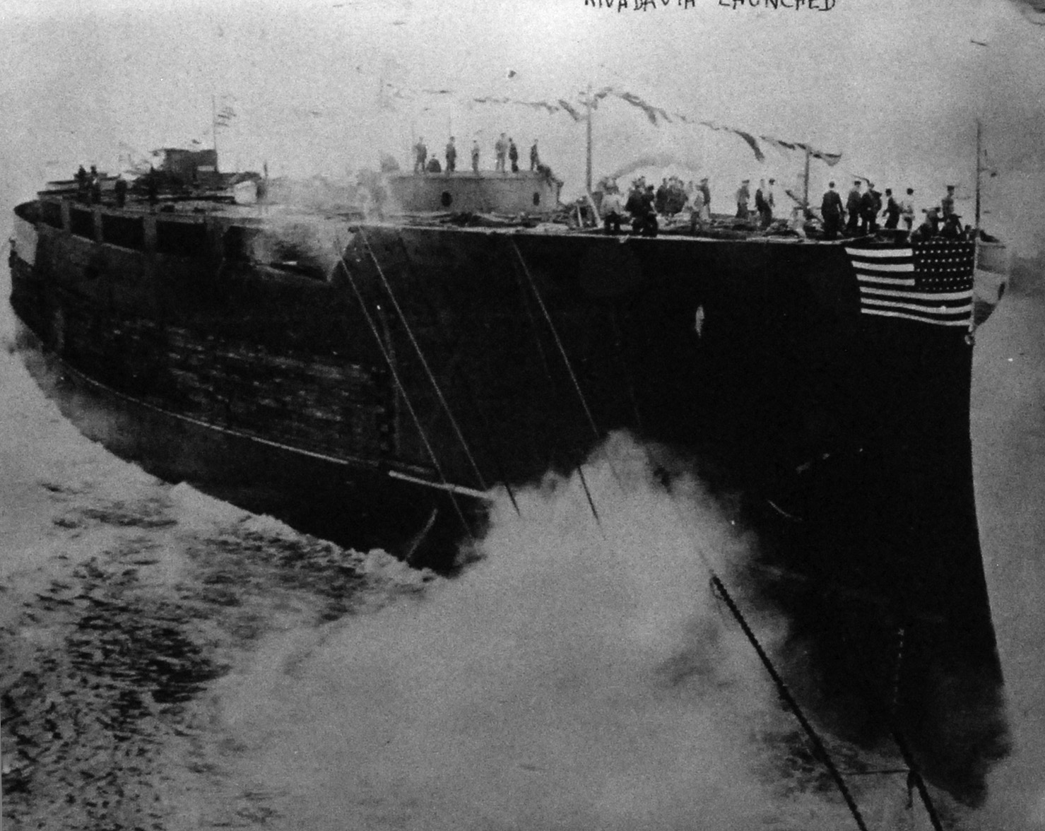 The launch of the Argentine dreadnought battleship Rivadavia.